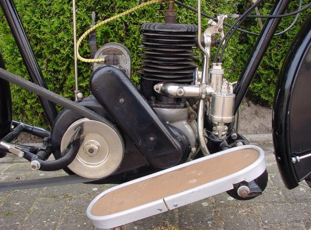 1920 James 225cc 2¼ HP two stroke motorcycle engine, right side with staggered radiators